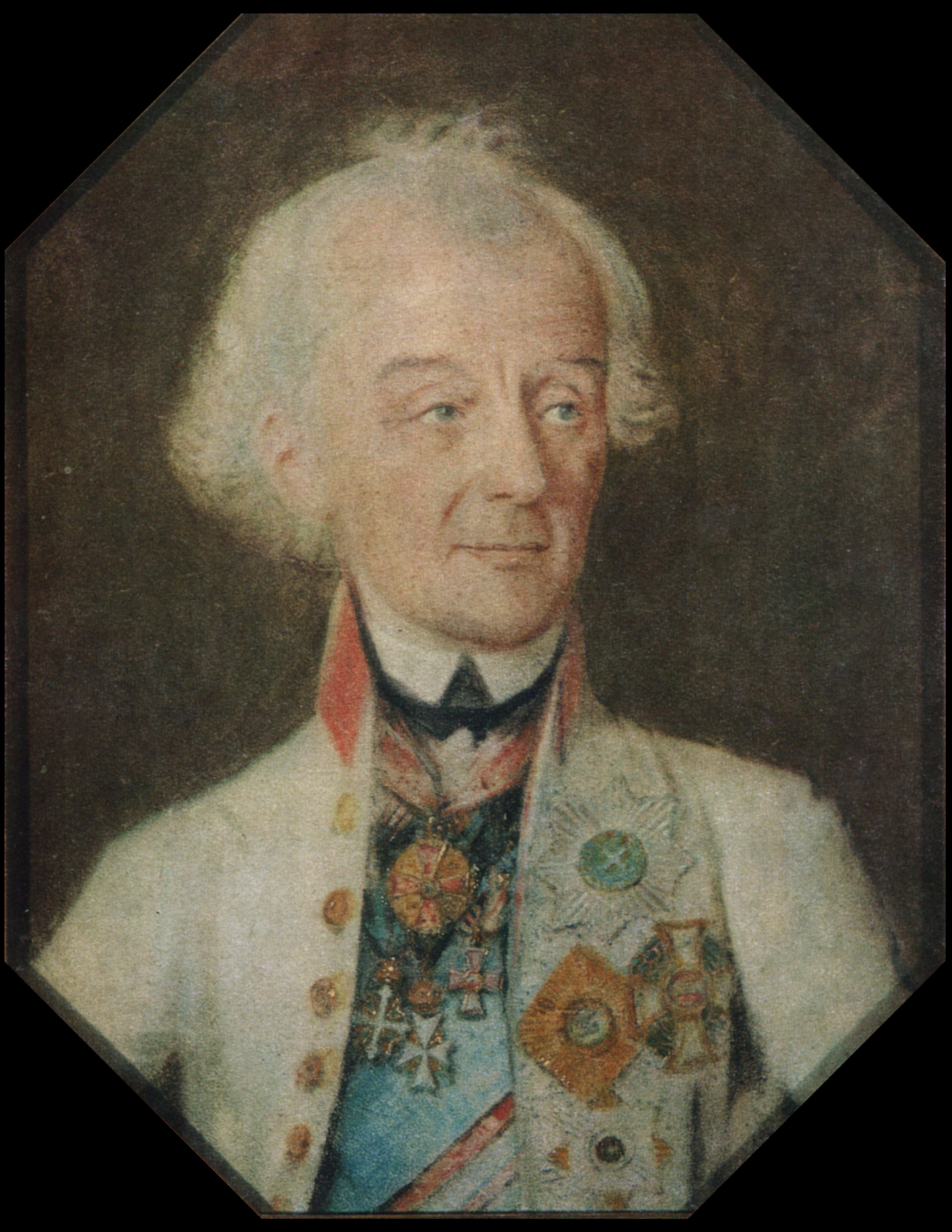 The portrait was drawn from life four months before the death of Alexander Suvorov and was the last lifetime portrait of the commander. The pastel was performed in Prague, where Suvorov stayed for a while as he went to Russia after the Swiss Expedition. The J.H. Schmidt's portrait became a base for numerous repetitions and derivatives; the engravings of A.A. Frolov and N.I. Utkin are the most well-known among them. Suvorov is portrayed in the white Austrian uniform of a field marshal; in later repetitions artists depicted Suvorov in the Russian uniform and with other decorations.